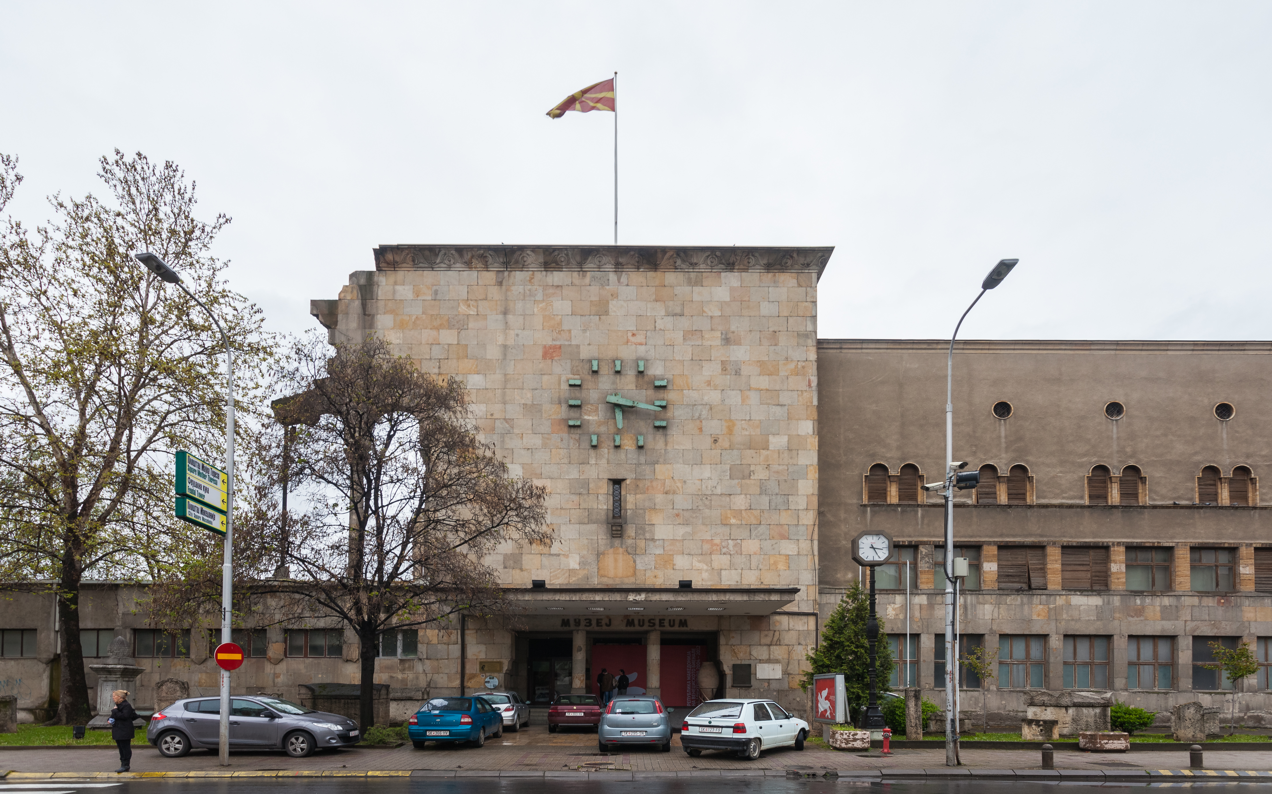 Old Railway Station (now Skopje City Museum), Skopje, Macedonia